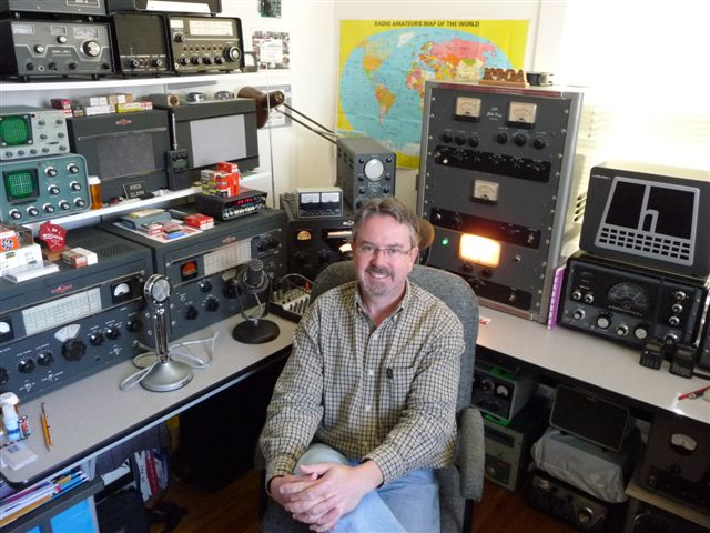 Amateur radio station of K9OA, Clark Thompson featuring vintage gear